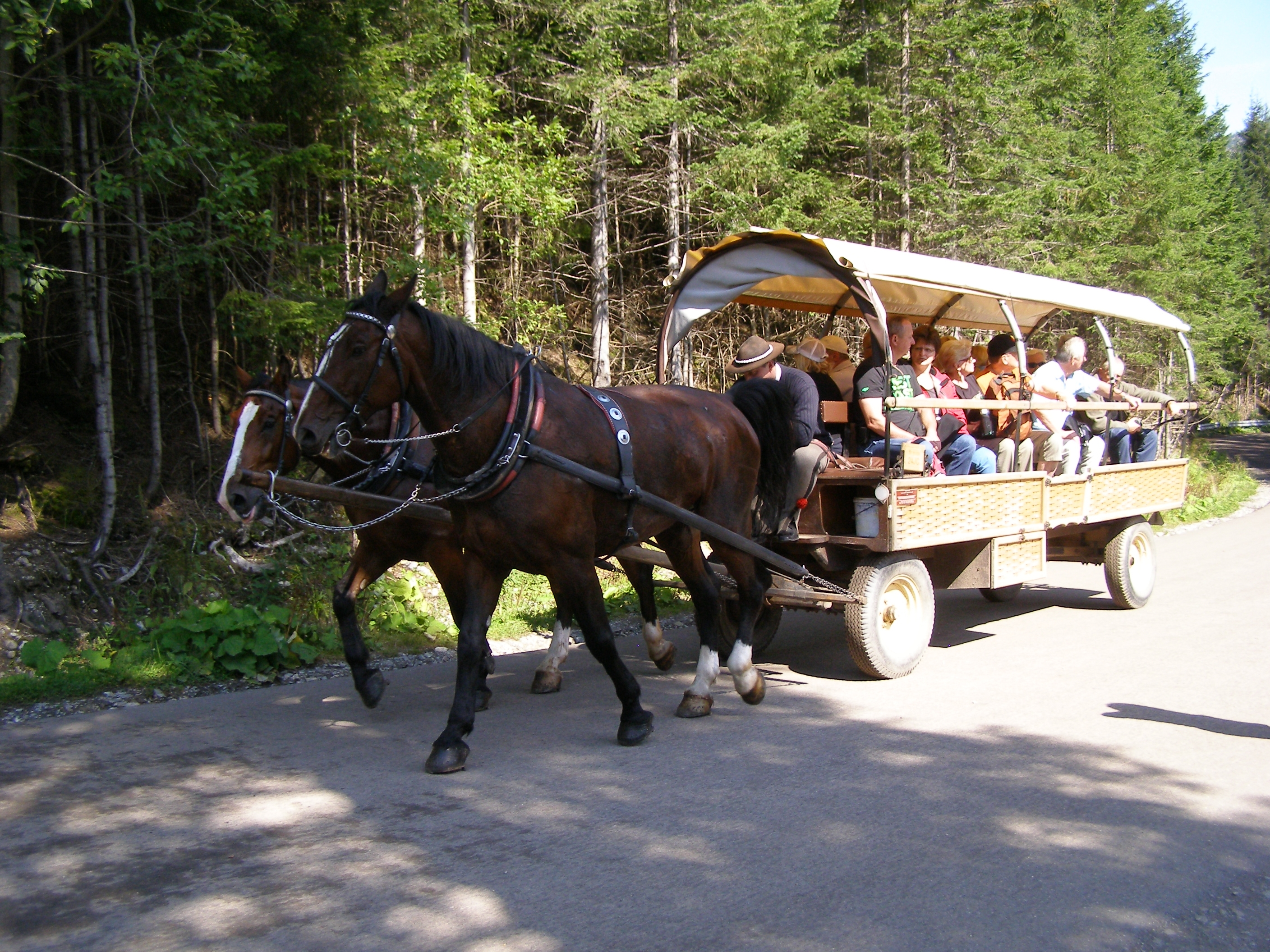 Tatra National Park - horse-drawn wagon on the way to the Morskie Oko